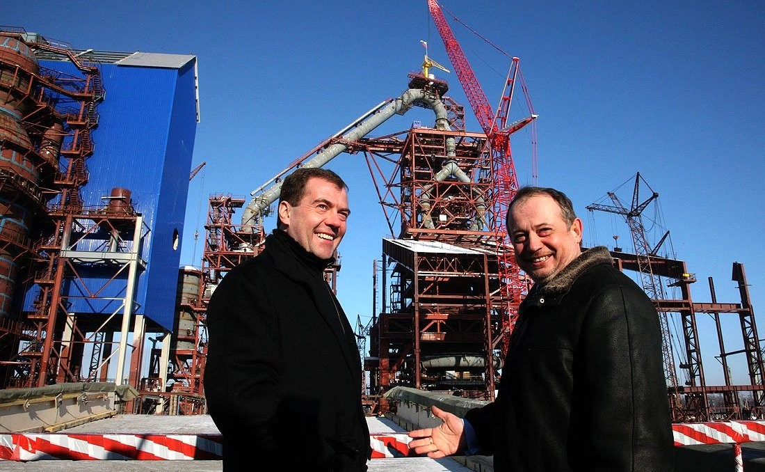 Novolipetsk Steel